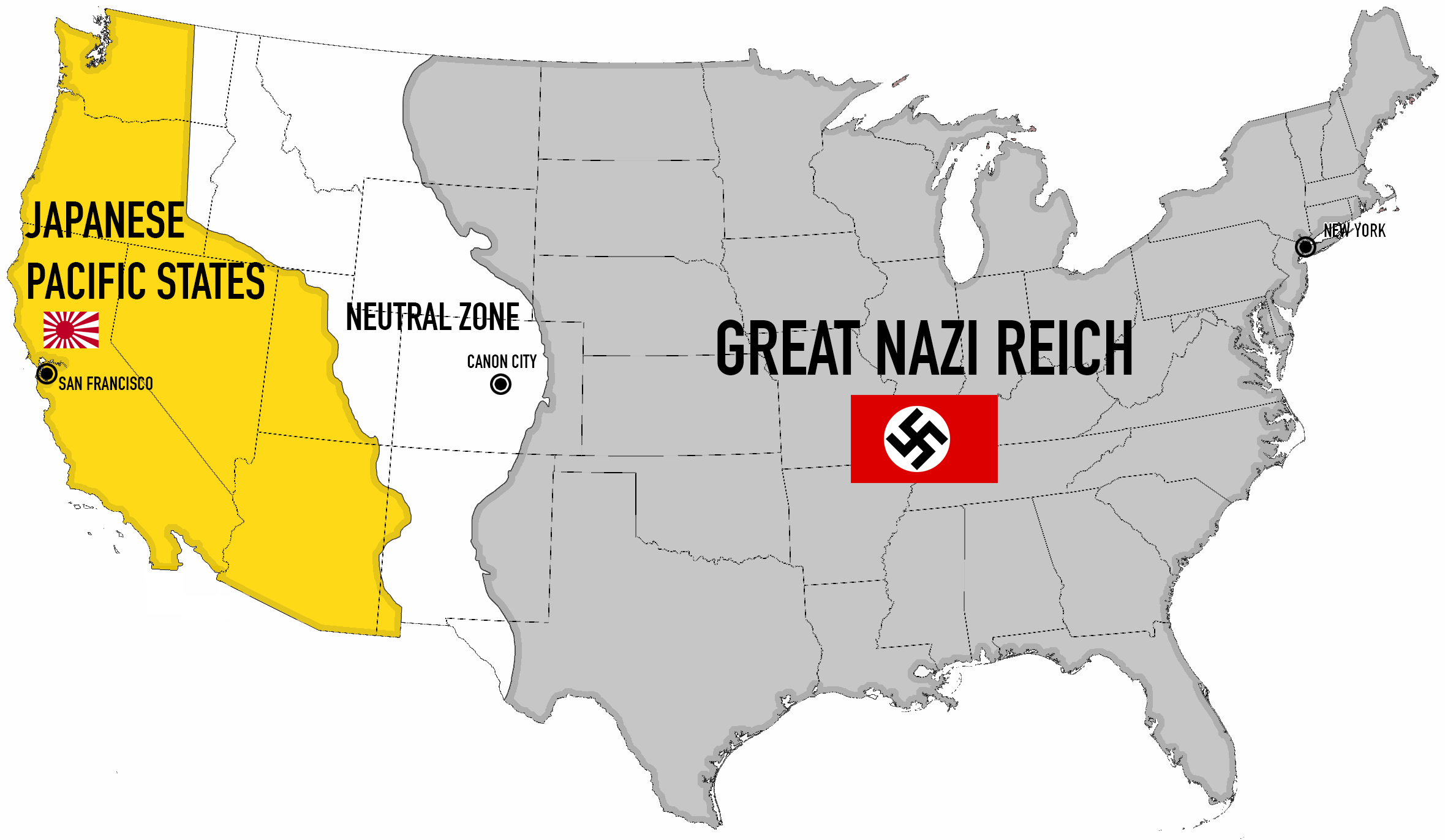 The USA as depicted in the TV series "The Man in the High Castle". Boundaries are based on those shown in a map during the pilot episode.